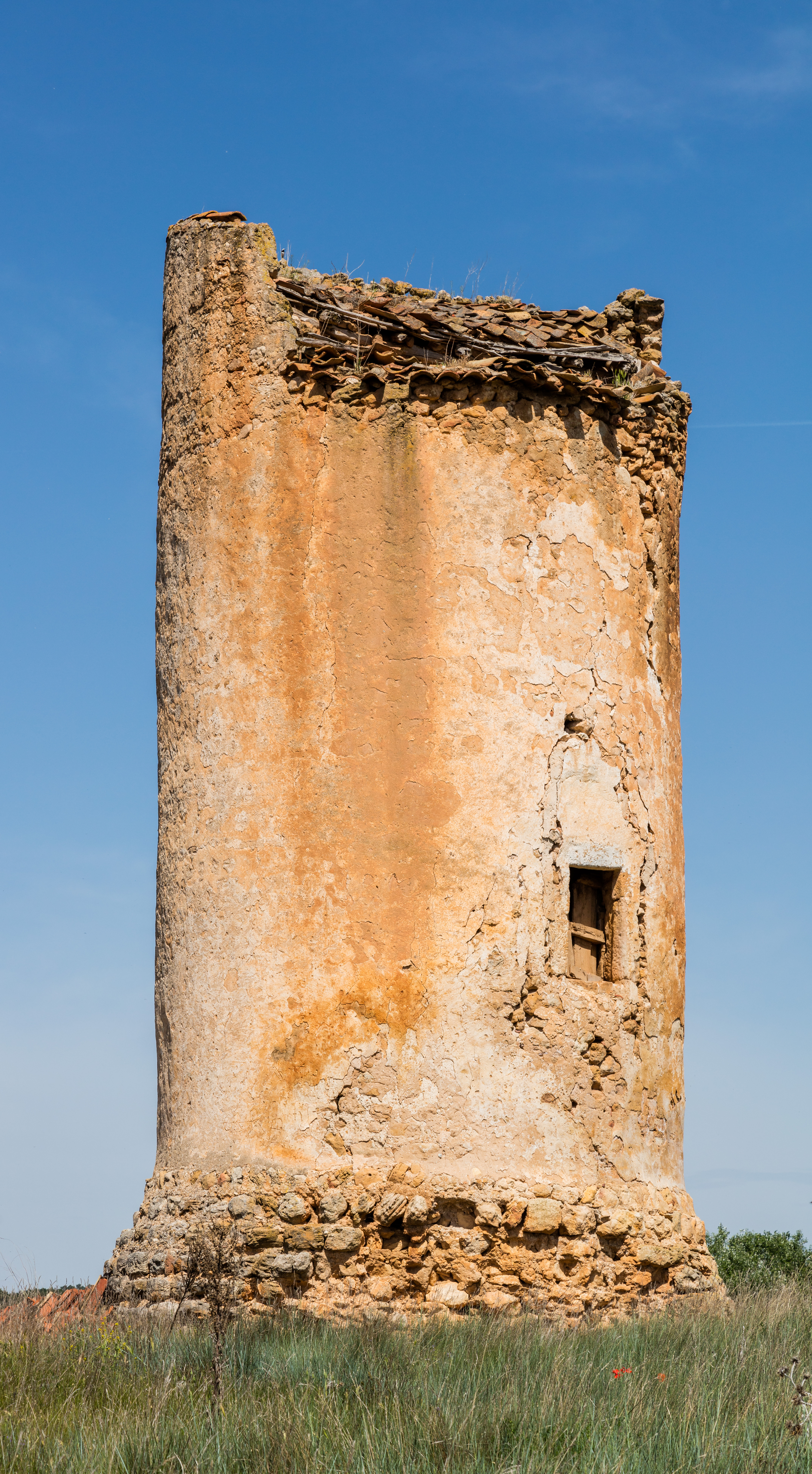 Watchtower, Navapalos, Soria, Spain